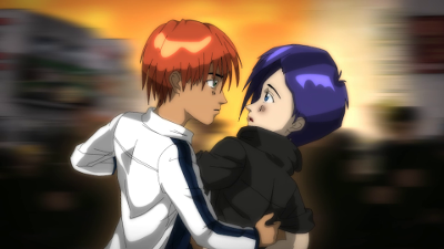 A snapshot from the 2012 demo release from the Morevna Project.